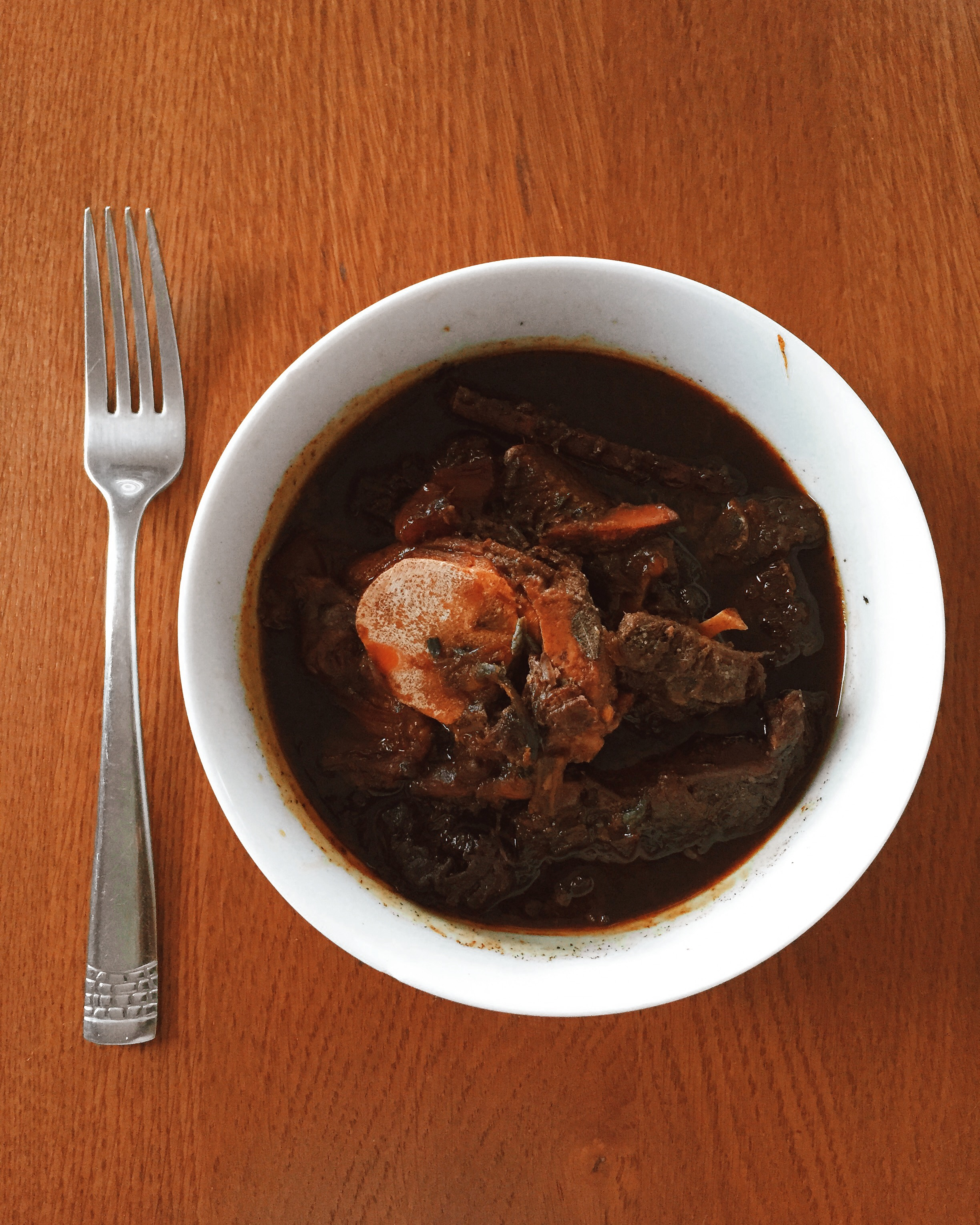 If you ever find yourself at a Guyanese restaurant and you see this on the menu, don't hesitate - do yourself a favor and get it. Rich, savory, spicy - this dish defines Christmas Morning to most Guyanese people (although it can be consumed any time throughout the year). Preparation often begins several days in advance, and the dish slowly simmers until it is ladled out into bowls to be sopped up with fresh, crusty, warm, home-made bread. There are cloves, cinnamon, and big, bony hunks of mostly unglamorous cuts of meat -- the ones with lots of fat and cartilage, like cow-heel. Of course, as you'd expect, given the name, there's also plenty of hot pepper. But the signature ingredient, which gives pepperpot its rich color and savory flavor is called casareep, an extract of the cassava (or yucca) root. It's not uncommon, as the pot begins to dwindle, that it is freshened up with more meat and casareep to extend its enjoyment over the course of several days during the holiday season. It is one of my absolute favorite foods on the planet.